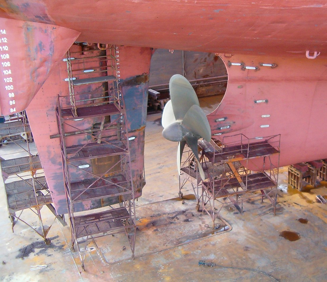 Vessel's propeller and rudder on the floating dock in Shiprepair Yard 'Remontowa' in Gdansk, Poland.